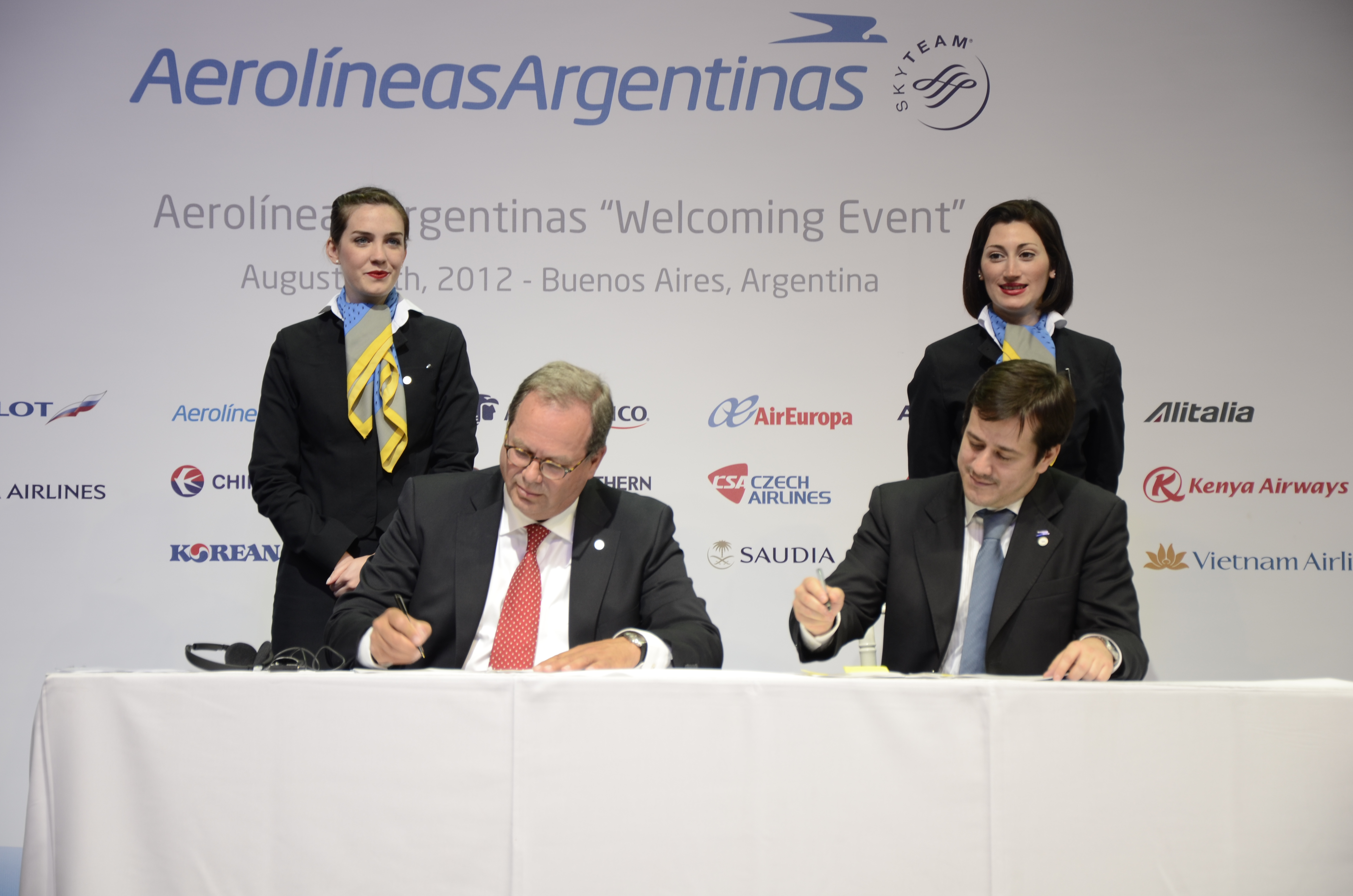 SkyTeam Managing Director Michael Wisbrun and Aerolíneas Argentinas CEO Mariano Recalde signing the agreement that made Aerolíneas Argentinas part of the SkyTeam network. The ceremony was held in Buenos Aires.